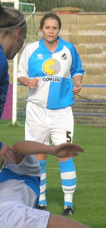 Emma Louise Jones (Birmingham City Ladies vs Bristol Academy, away Season 2006/07)